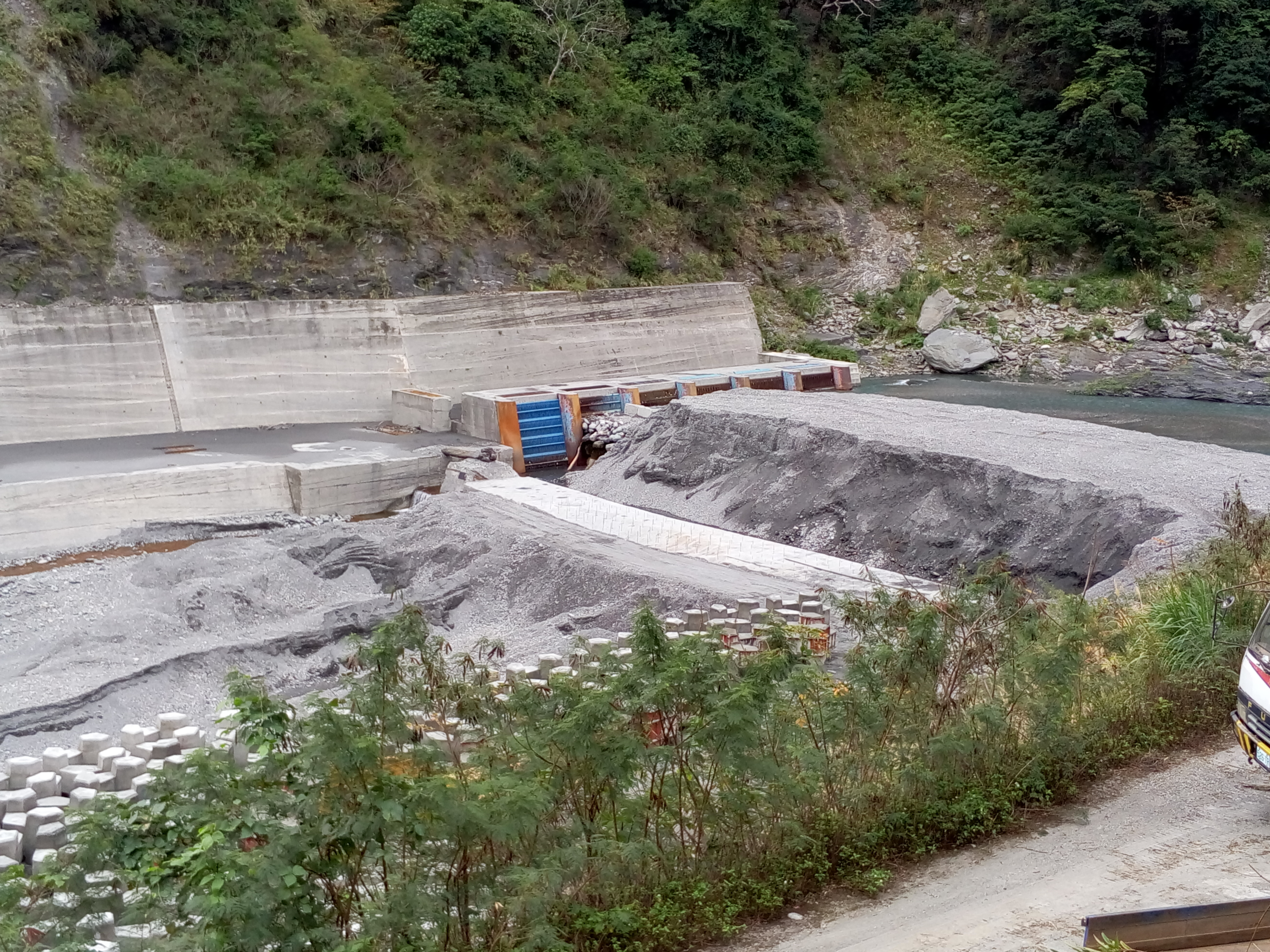 Banan Weir